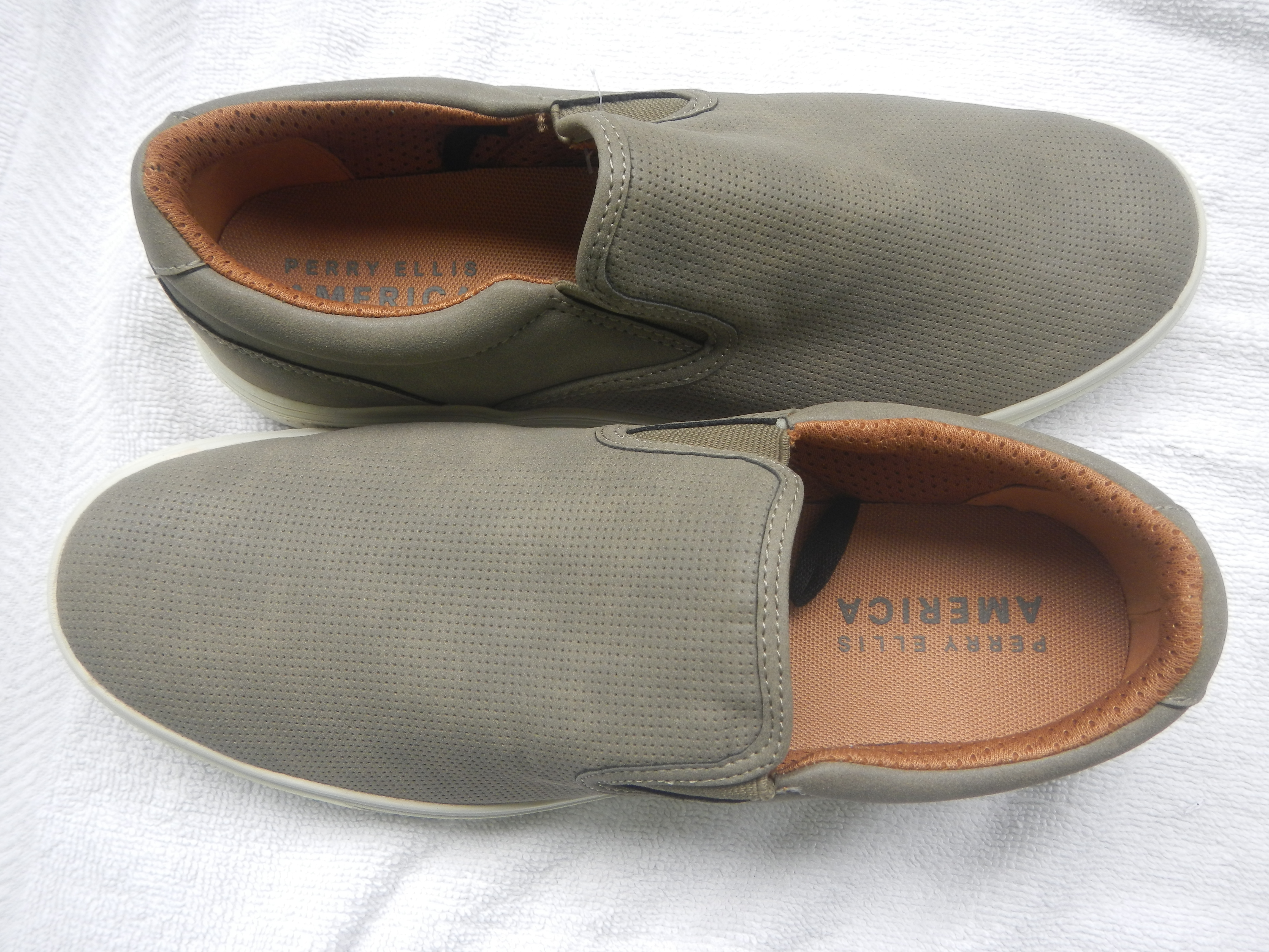 Phat Classic Perry Ellis America Atom Atomy toothpaste propolis (Note: Judge Florentino Floro, the owner, to repeat, Donor Florentino Floro of all these photos hereby donate gratuitously, freely and unconditionally all these photos to and for Wikimedia Commons, exclusively, for public use of the public domain, and again without any condition whatsoever).